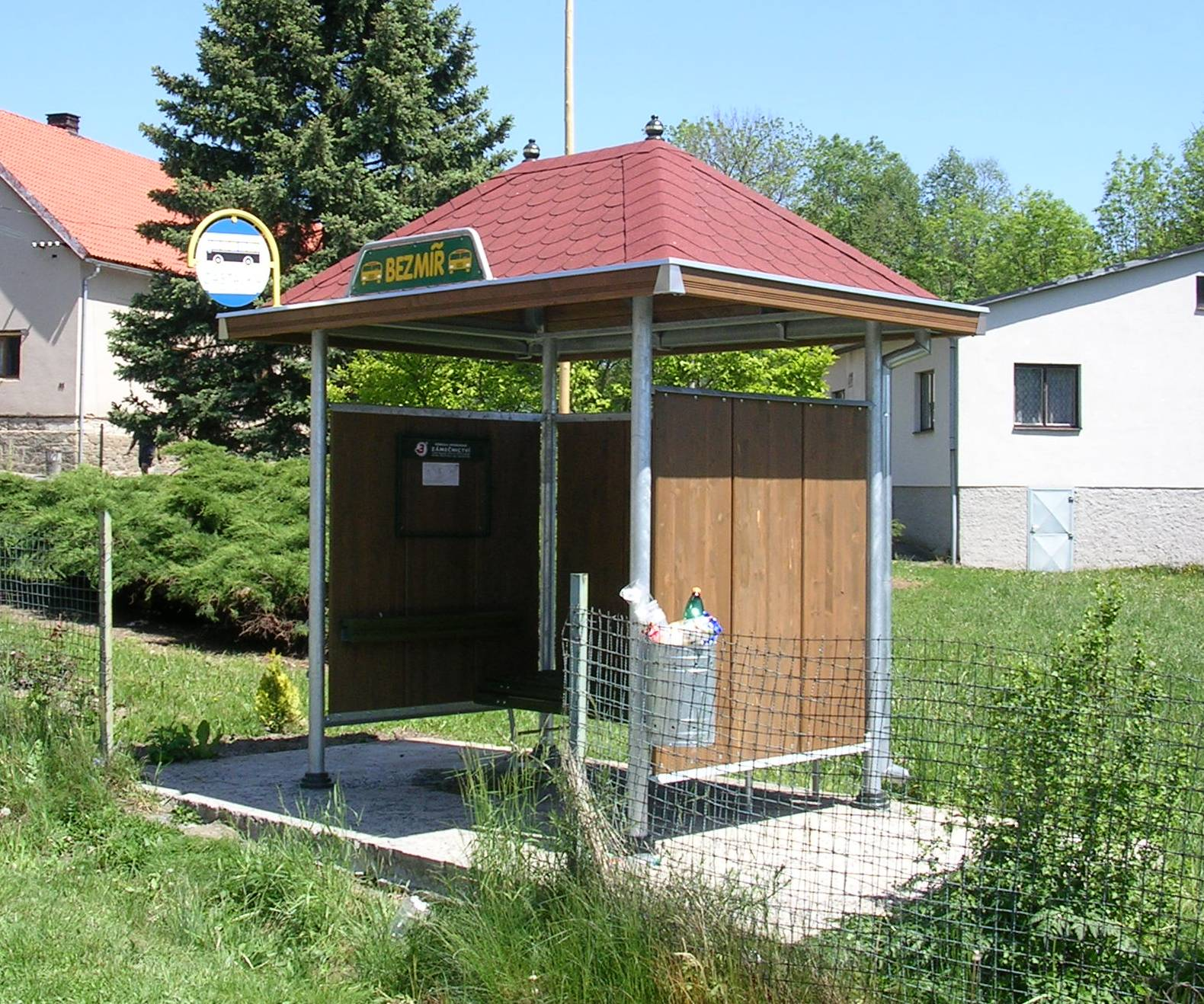 Bus stop shelter, Bezmíř, okres Benešov, the Czech Republic.